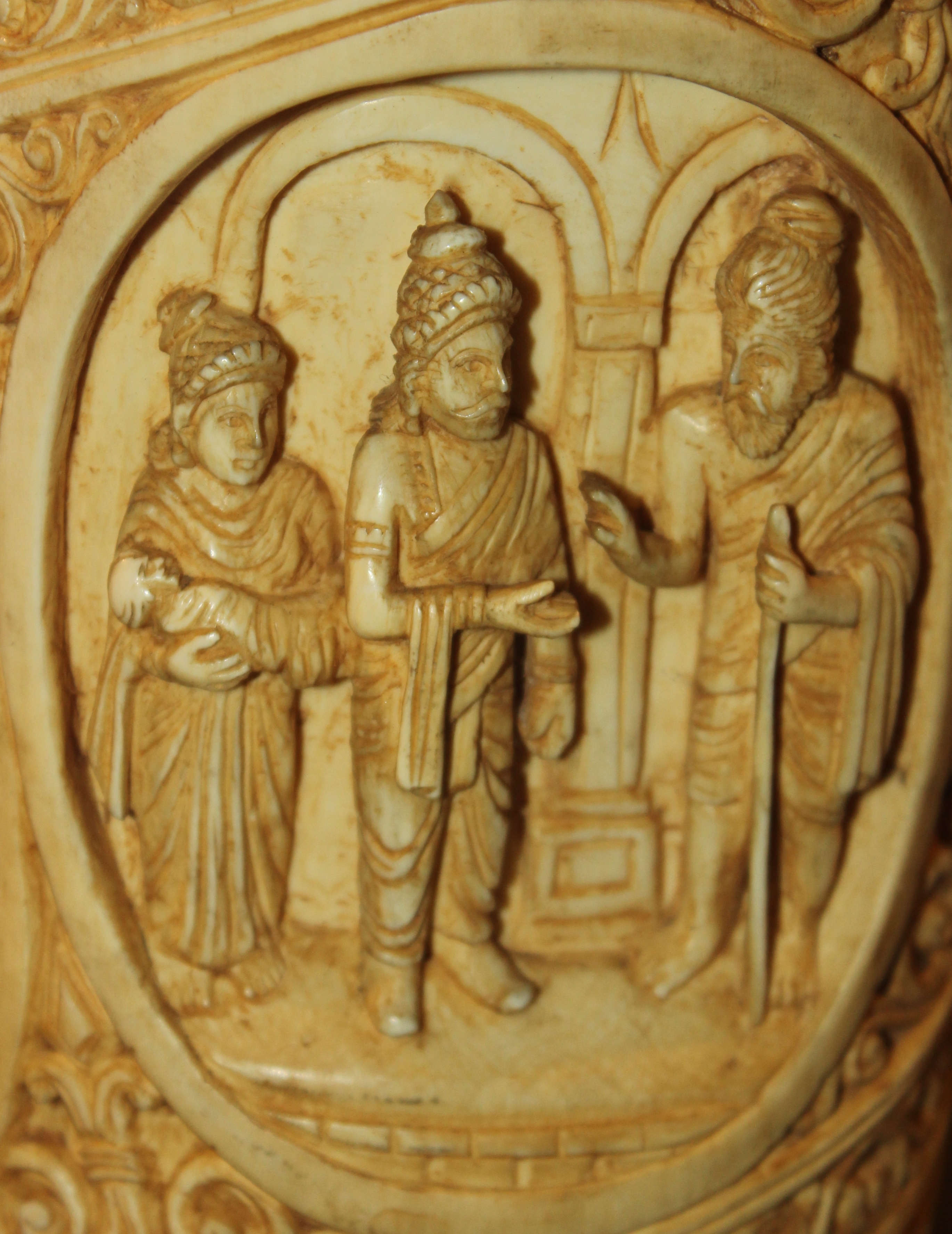 Roundel 7: King Suddhodhana and Queen Maya Devi welcome the sage Asita